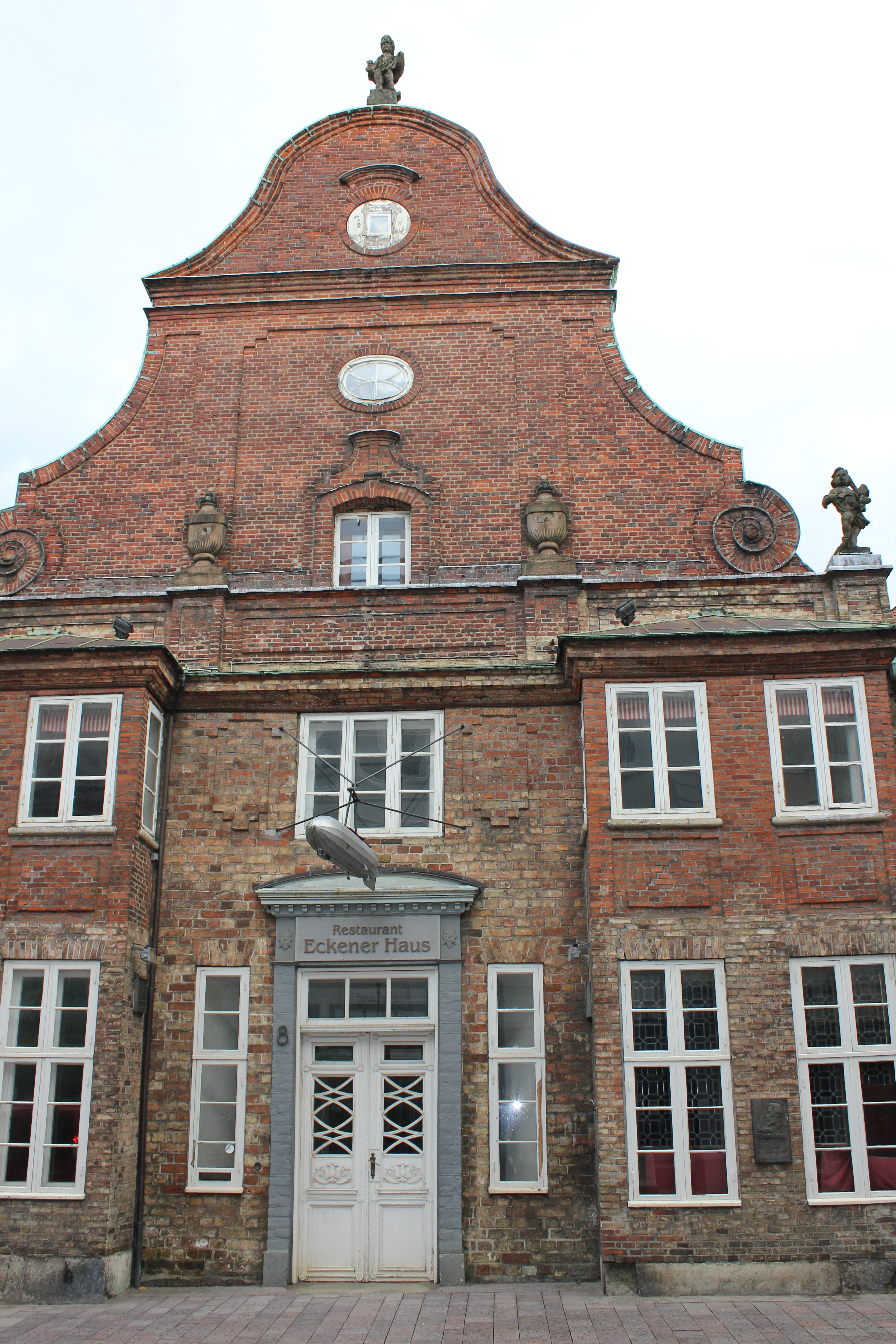 Eckener House (Birthhouse of Hugo and Alex Eckener)